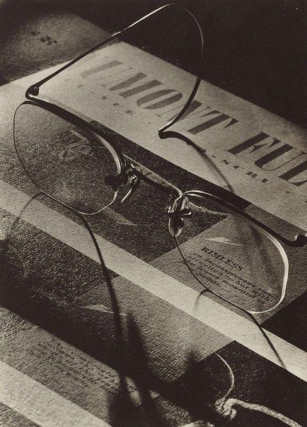 gelatin silver photograph, vintage